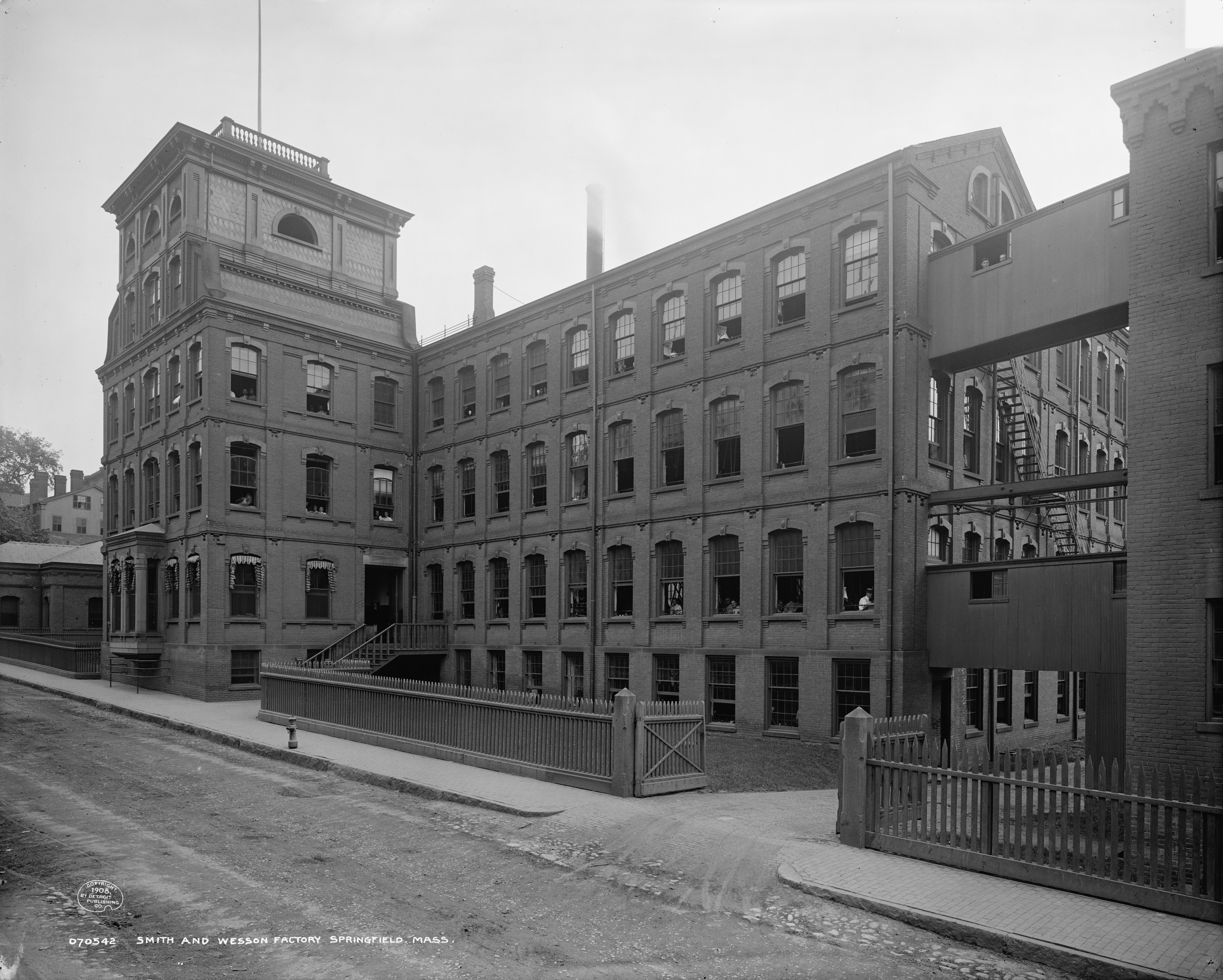 Smith and Wesson factory, Springfield, Mass. (ca. 1908) Digital ID: det 4a22747 Source: digital file from intermediary roll film Reproduction Number: LC-D4-70542 (b&w glass neg.) Repository: Library of Congress Prints and Photographs Division Washington, D.C. 20540 USA